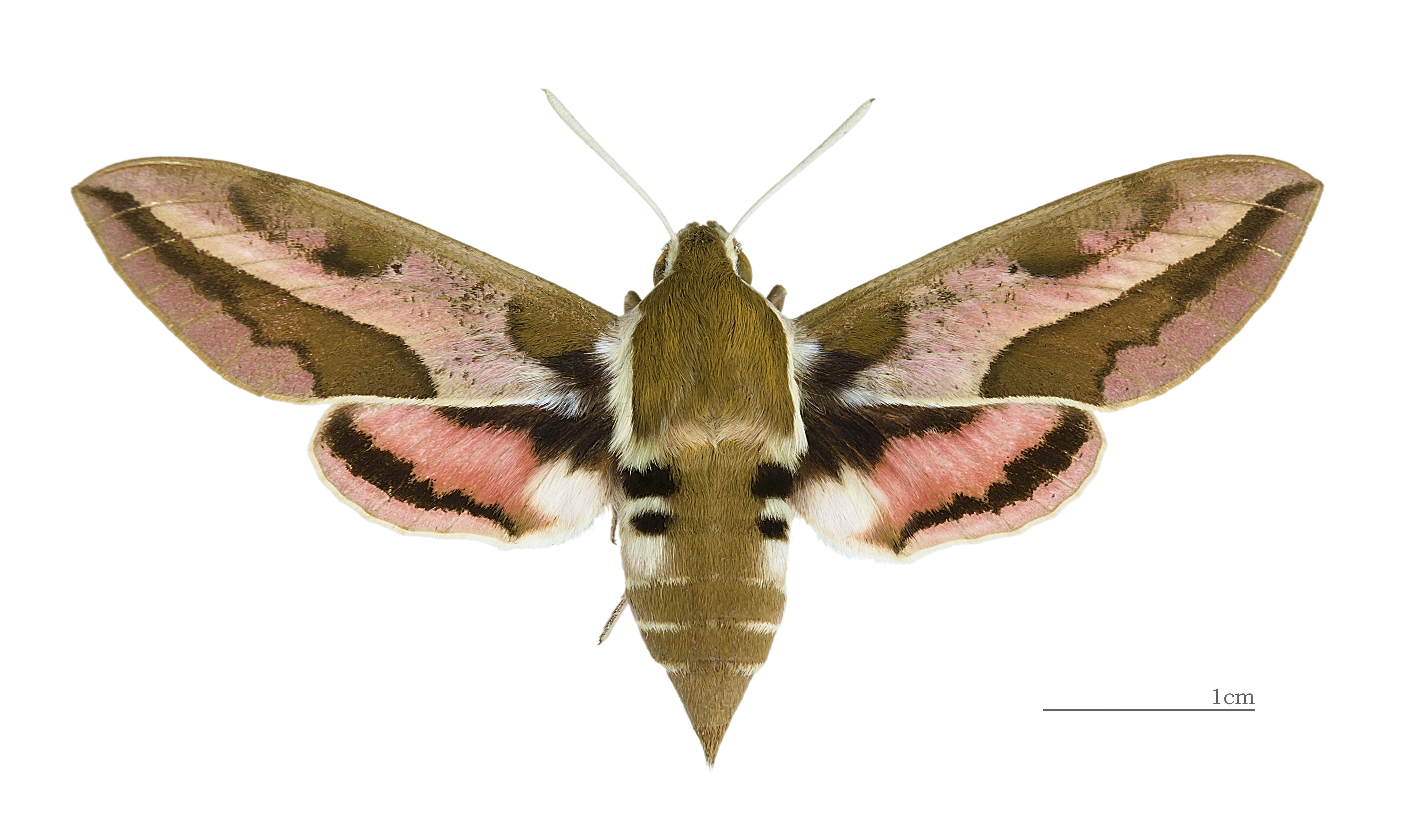 Spurge Hawk-moth - Dorsal side